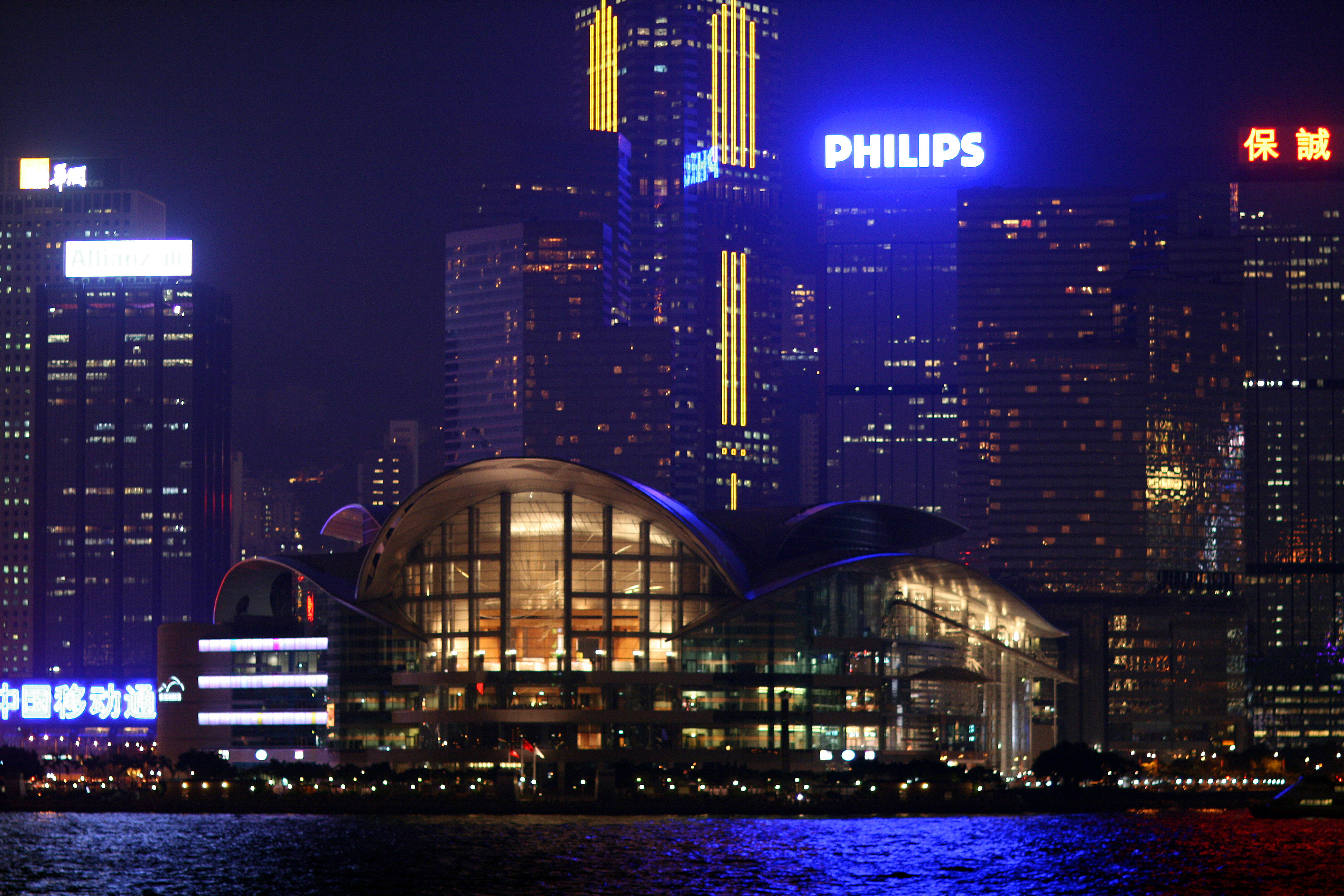 A view from Kowloon across to Hong Kong toward the convention center during their 8PM nightly laser light show.